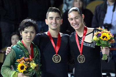 The men's podium at the 2015 Skate America. From left: Shoma Uno (2nd); Max Aaron (1st); Jason Brown (3rd).